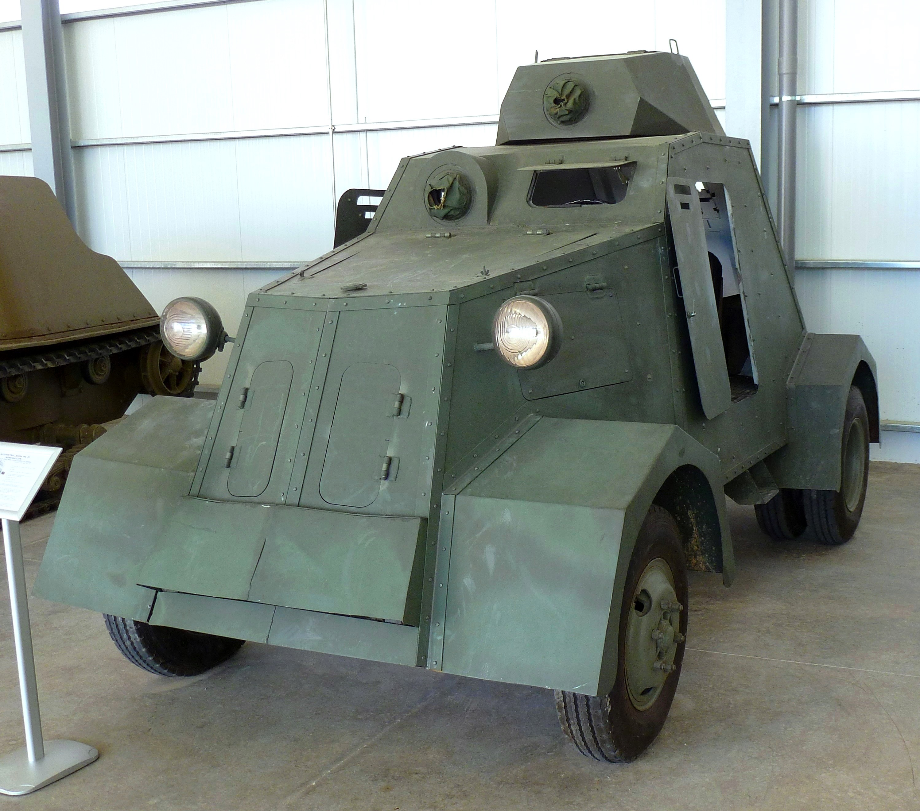 UNL-35 (replica).